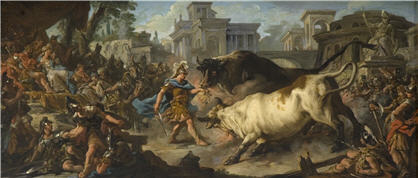 classical Greek hero Jason during one of his challenges during his search for the Golden Fleece.